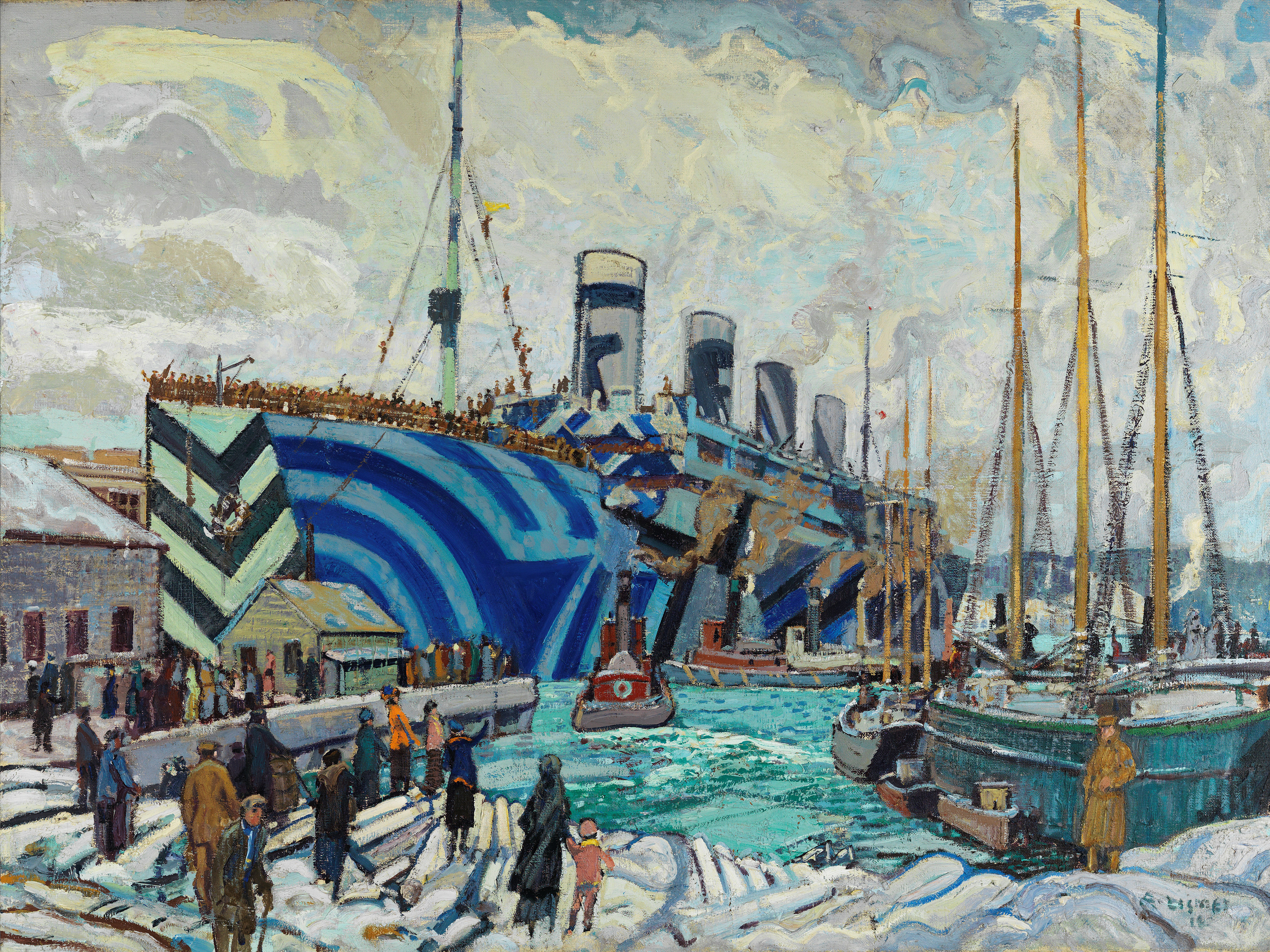 War artist Arthur Lismer captured the return of the troopship SS Olympic (centre) to Halifax harbour following the First World War. Olympic's multi-coloured dazzle camouflage, added in 1917 at the height of the German U-Boat threat, was intended to make the ship more difficult to identify and target. The painting also provides a glimpse of the busy Halifax dockyard, Canada's principal wartime naval base. Pressed into service in 1915, Olympic became one of the war's most famous troop ships. Affectionately known as "Old Reliable," Olympic would carry over 200,000 British, American, and Canadian troops to and from the fighting fronts..